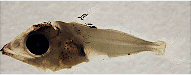 Larval stage of Atlantic bluefin tuna, Thunnus thynnus